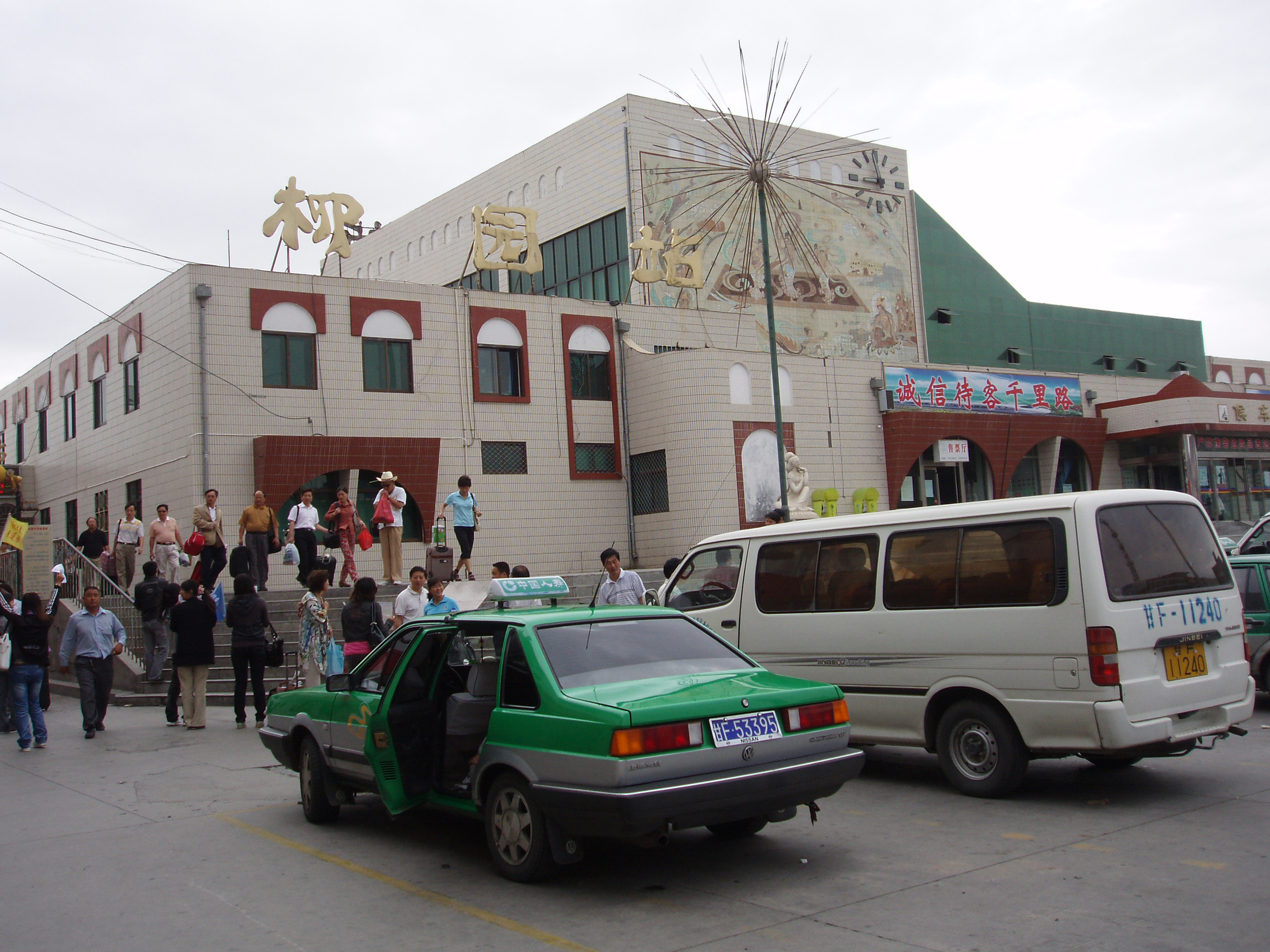 Liuyuan railway station in Gansu,China,to Mogao Caves.